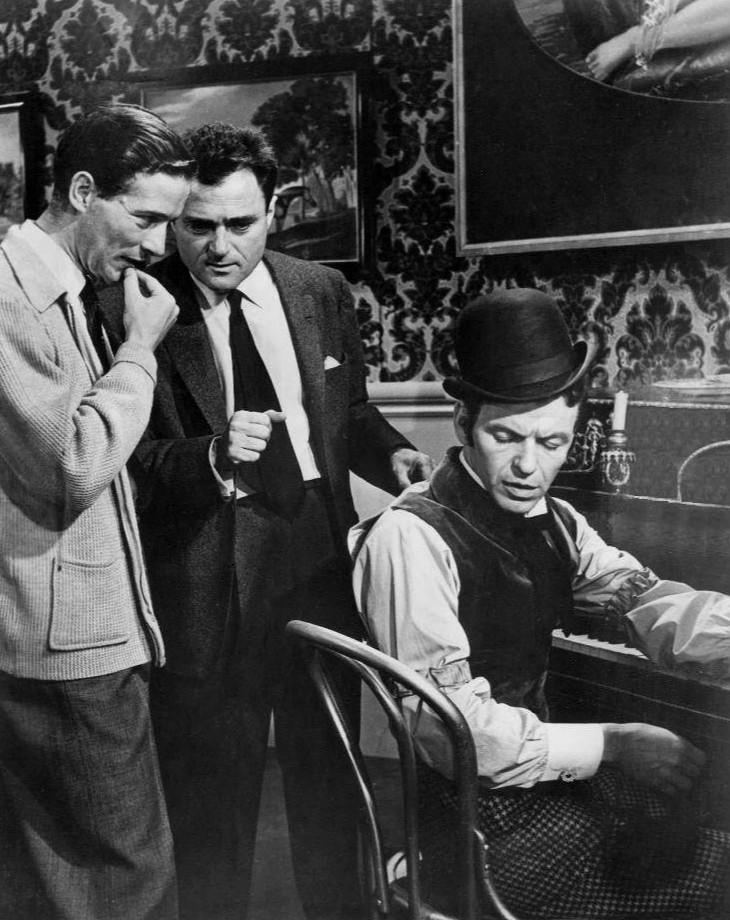 Photo of Michael Anderson, Mike Todd and Frank Sinatra on the set of Around the World in 80 Days.